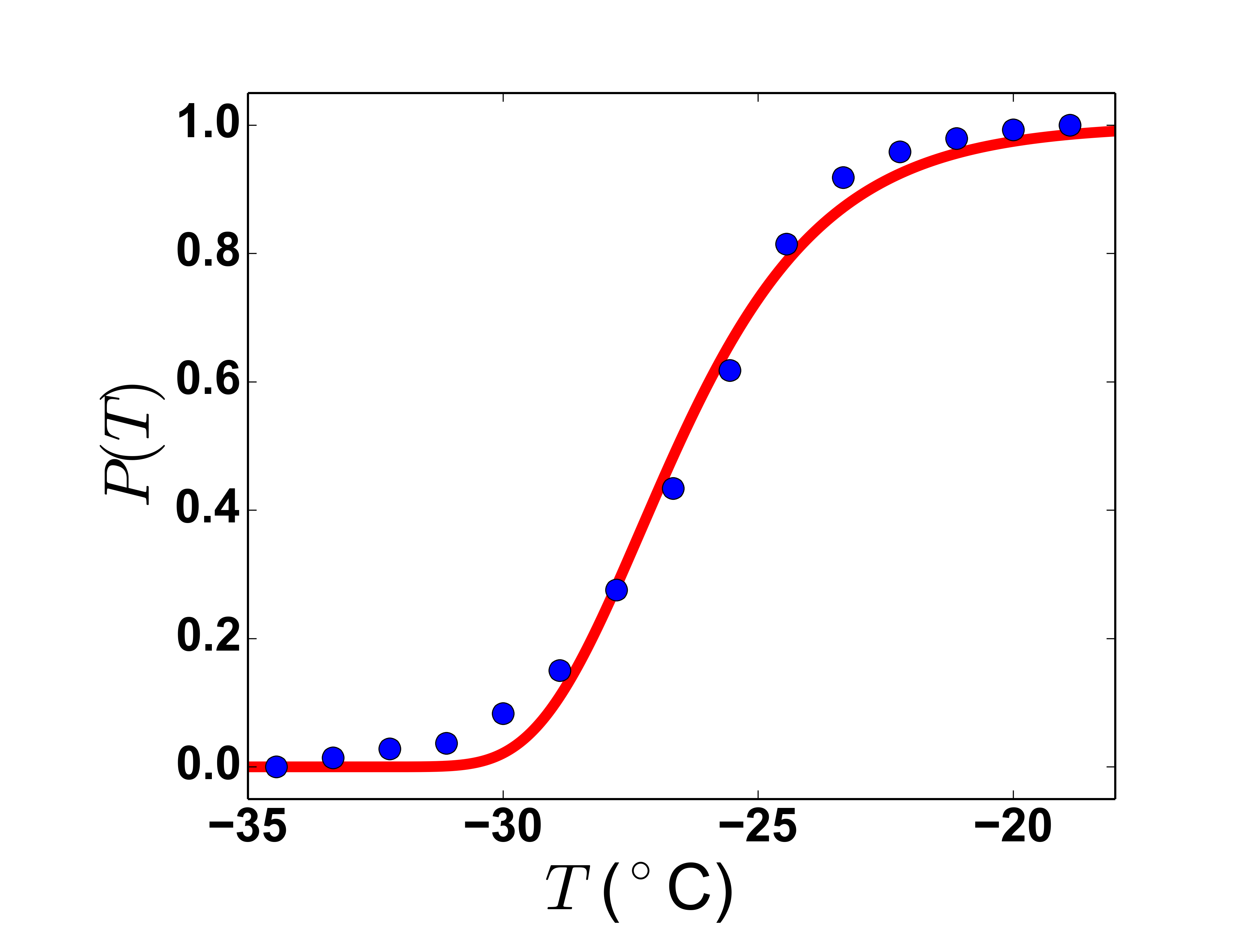 Fraction of water droplets not frozen as function of temperature, for 34.5 micrometre (std dev 3 micrometres). Blue circles are data from Fig 8(e) of NACA Technical Note 2142 (1950) RJ. Dorsch and PT Hacker. Extracted using Datathief. Red curve is Gumbel fit to the data: P(t) = exp[-exp( (-27.3-T)/2.00 )]